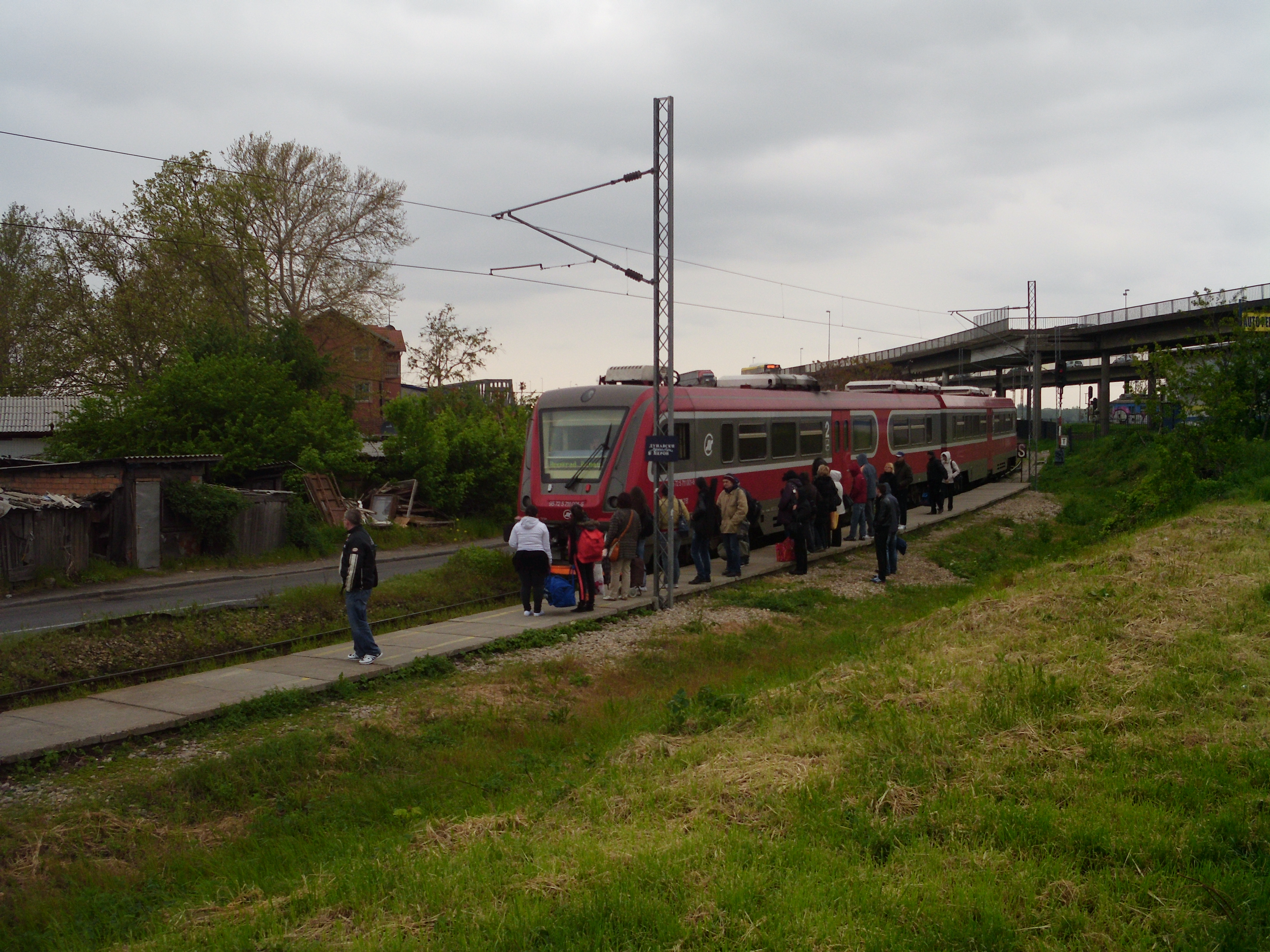 A commuter train of Serbian railways, running from Pančevo to Beograd Dunav, approaching the "Danube platform" of Pančevački most station in Belgrade. The Pančevo Bridge itself can be seen in the background.